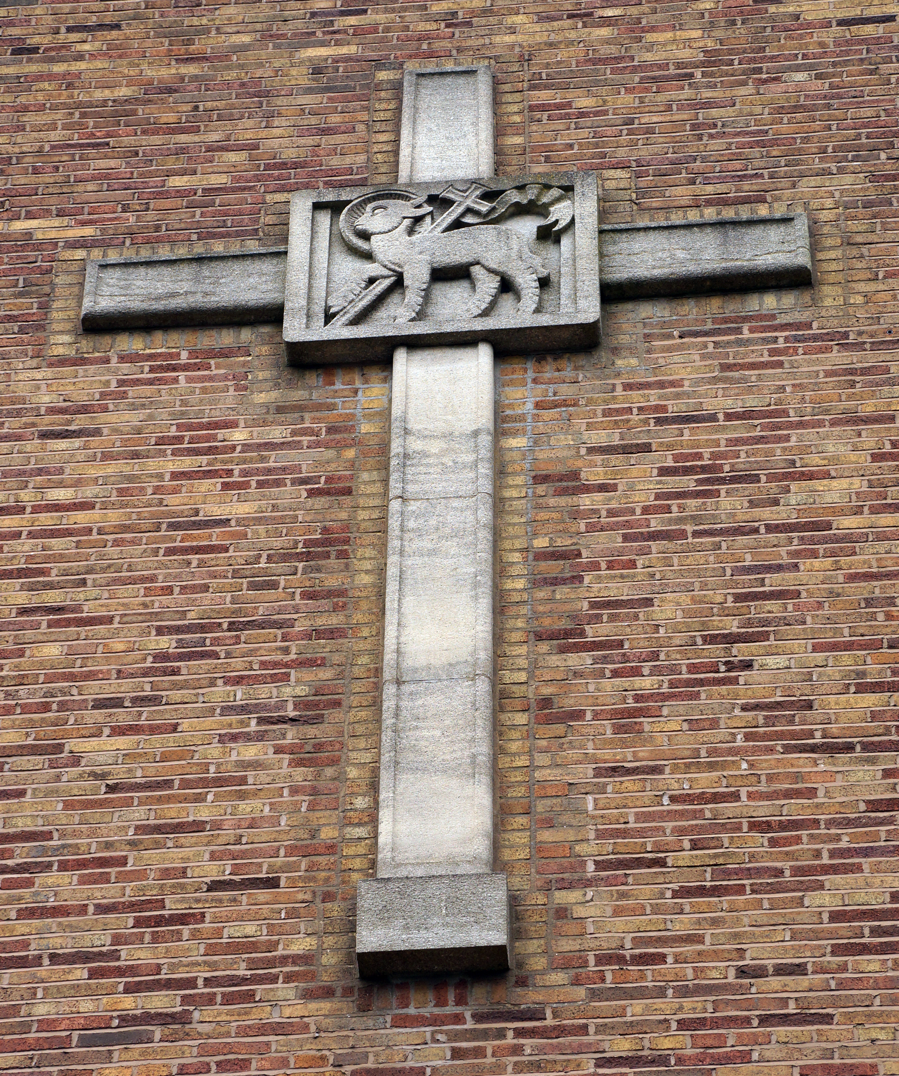 Latin Cross sculpture on Christ Church, Burney Lane, Ward End, Birmingham, England by local sculptor William Bloye, c1935. Contrast modified in Photoshop.